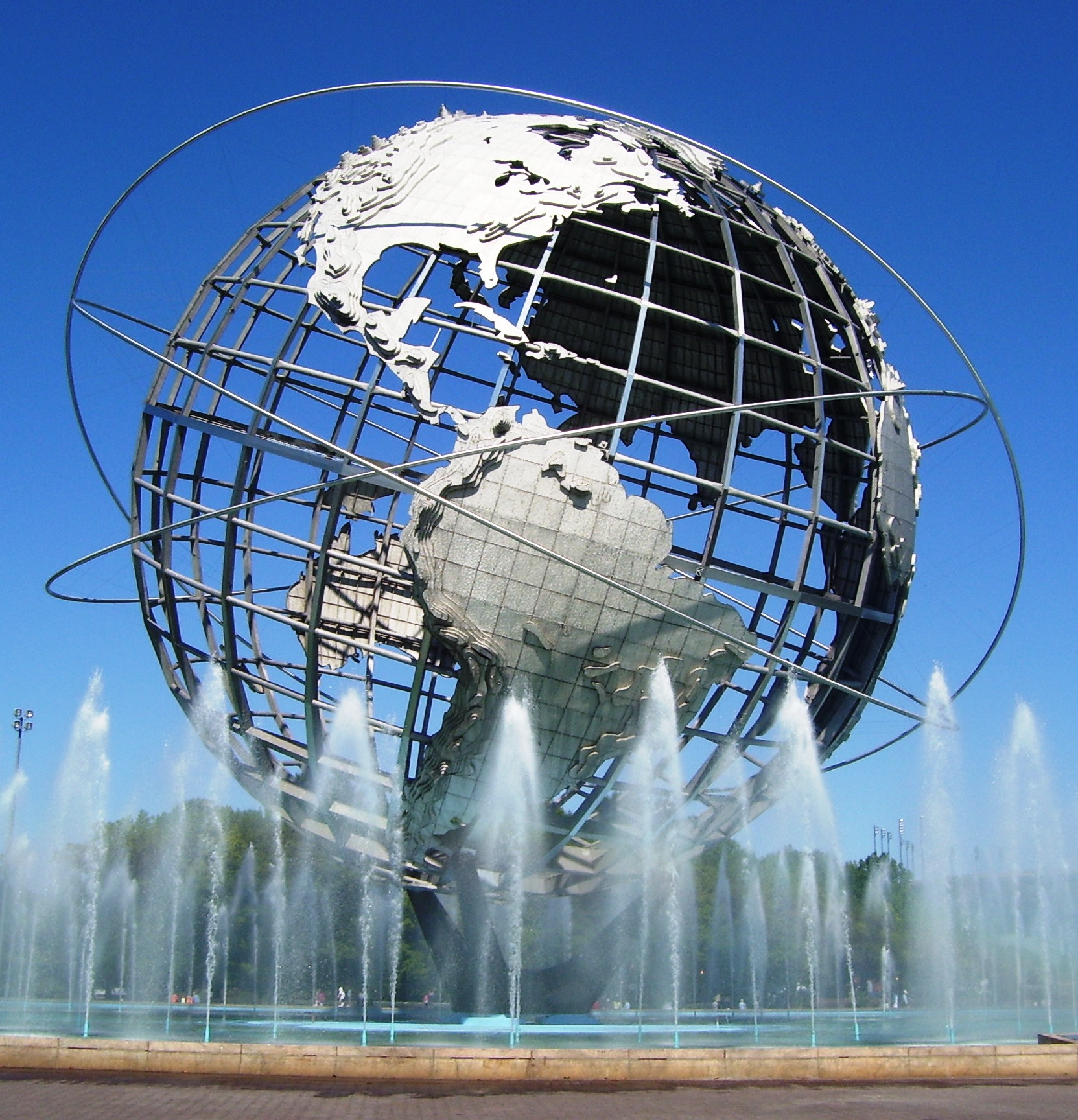 The Unisphere, built for the 1964 New York World's Fair, in Flushing Meadows Corona Park, Queens, New York City